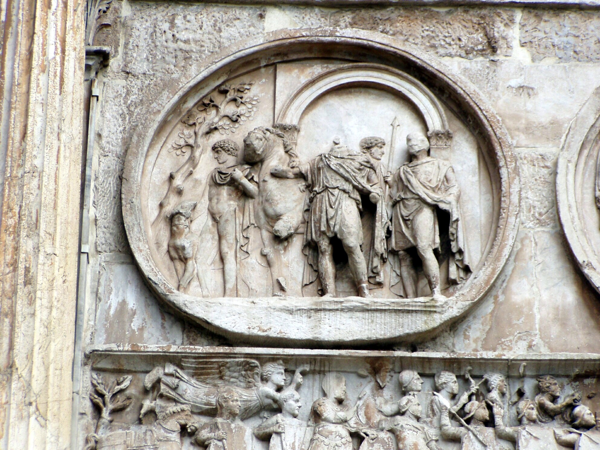 Detail of Arch of Constantine